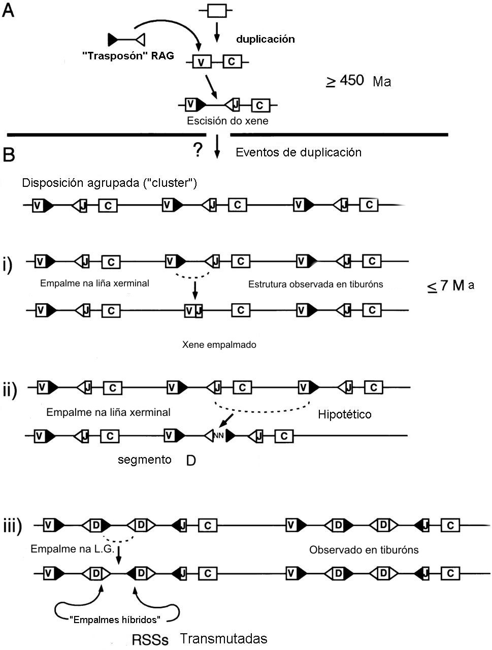 Postulated intermediates in the molecular evolution of the Ig and TCR loci.